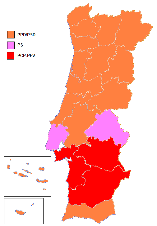 Winner by district/region of the elections for the European Parliament in Portugal, June 7th, 2009